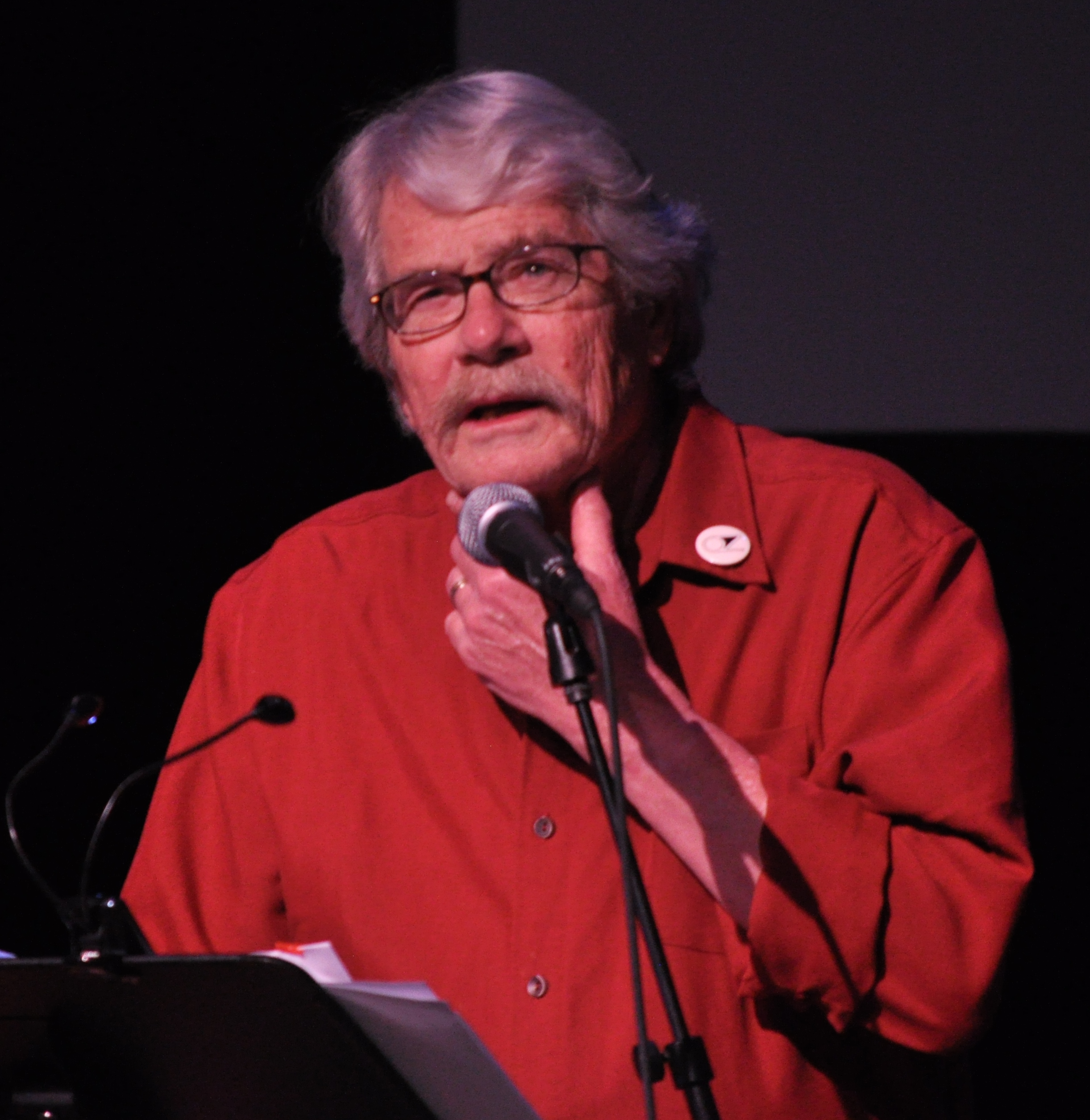 Surviving Firesign Theatre member David Ossman paying tribute to the late Peter Bergman. The tribute performance by the surviving members of the troupe was called the "Big Brouhaha" and took place April 21, 2012 at the Kirkland Performance Center, Kirkland, Washington, USA.